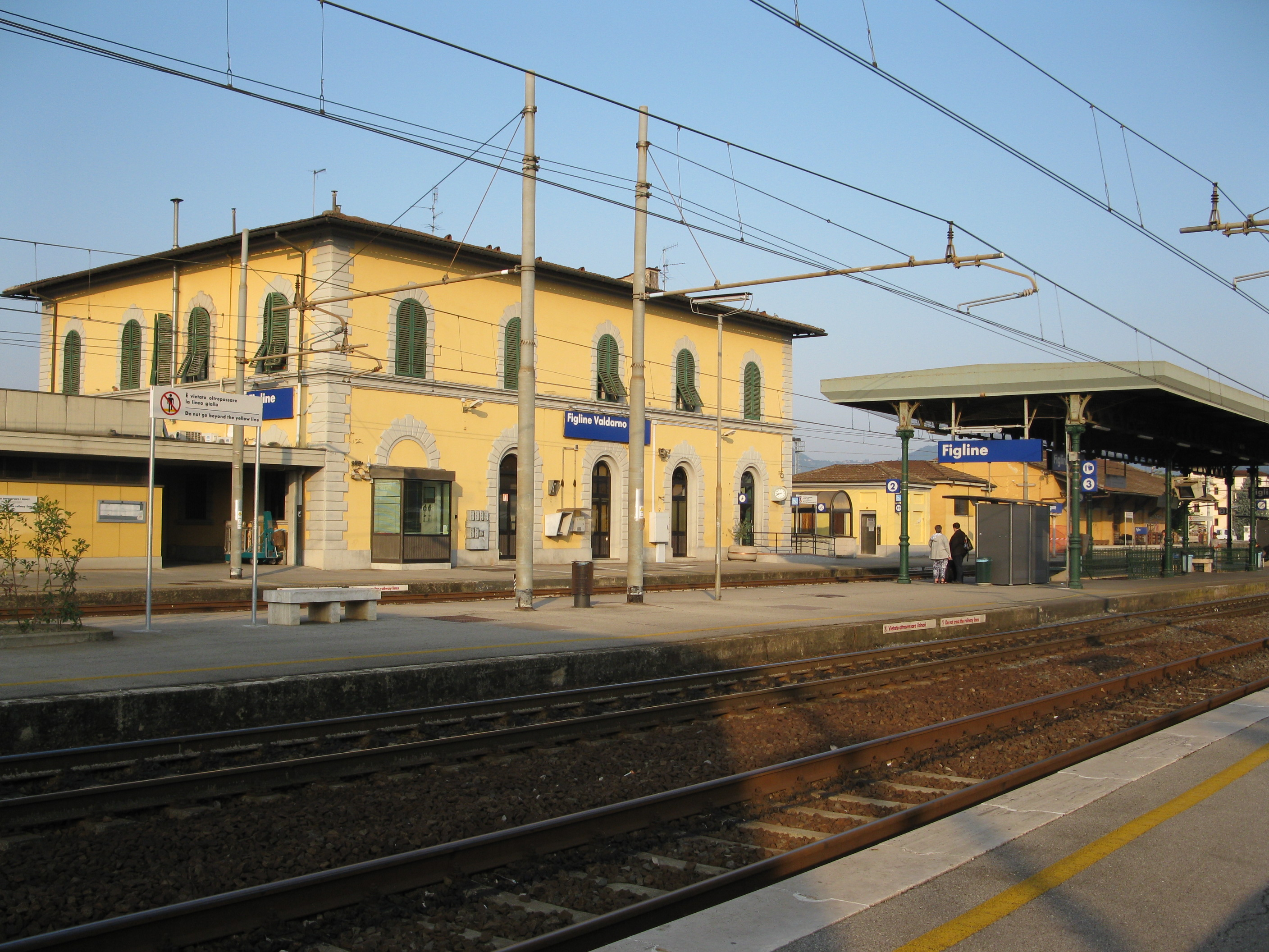 View of Figline Valdarno railway station station from platform 4